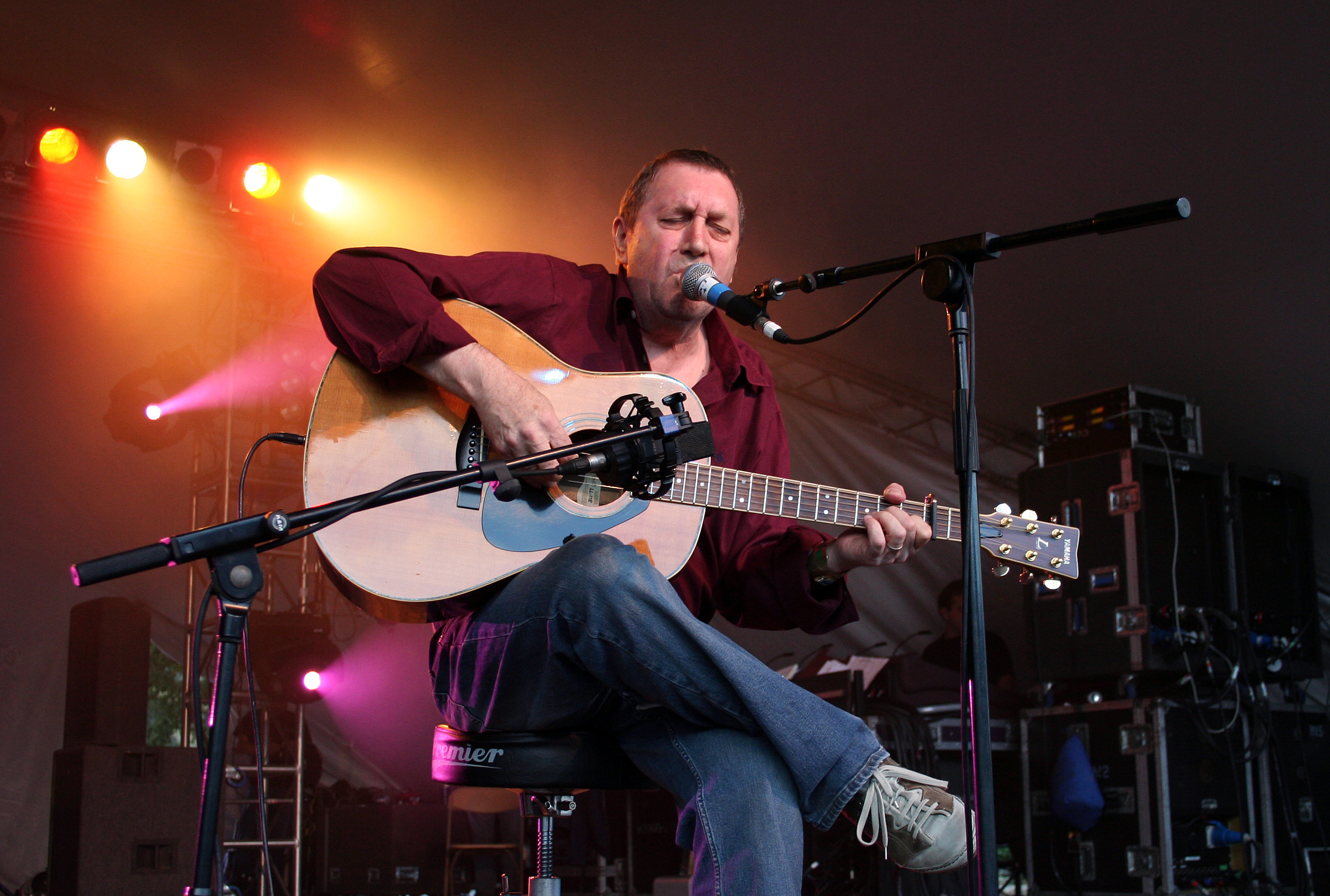 Bert Jansch performing at the Green Man FestivalIMG_2314